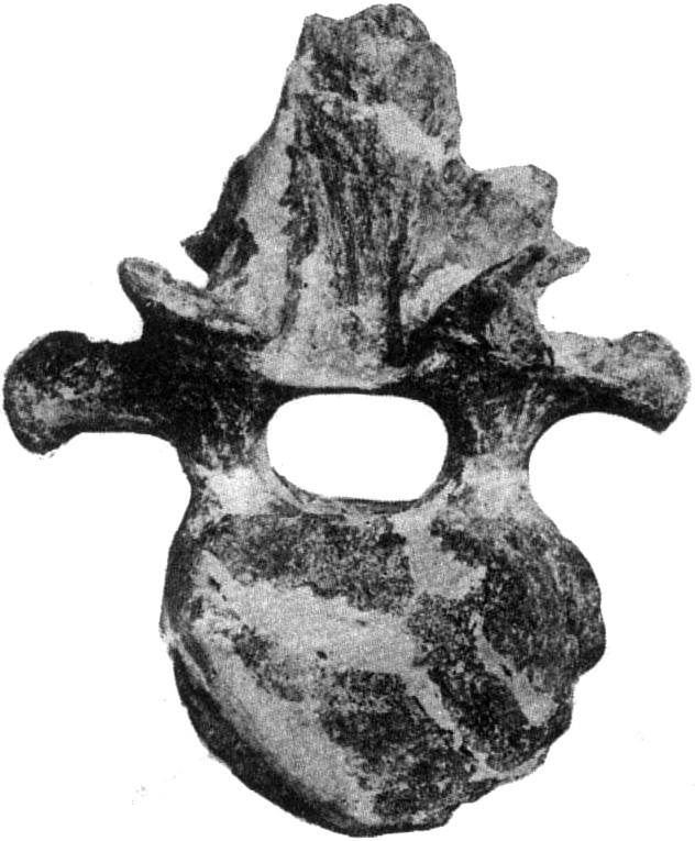 Neck vertebra of Ankylosaurus (specimen AMNH 5895).